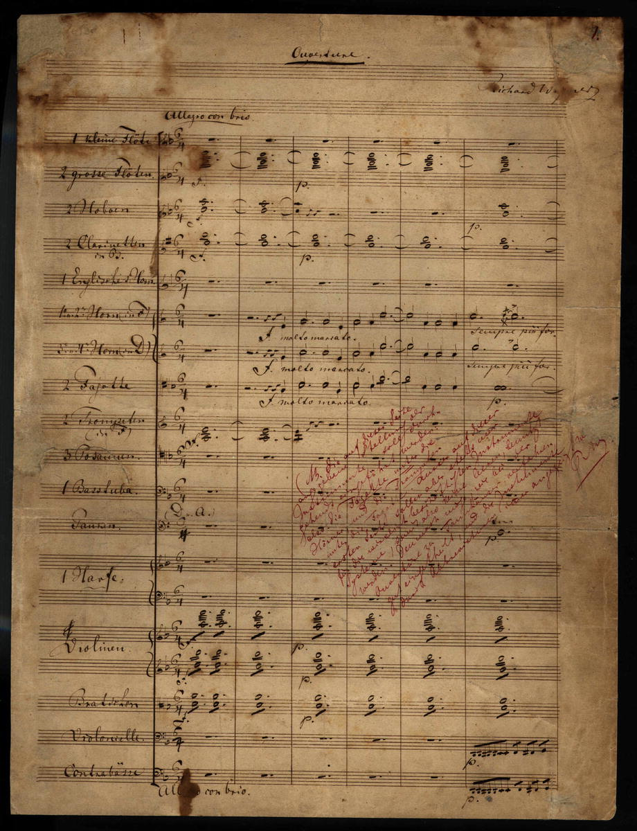 Der fliegende Holländer (The Flying Dutchman) Overture. Manuscript copy in Wagner's handwriting with notes to his publisher. Only 1 page available